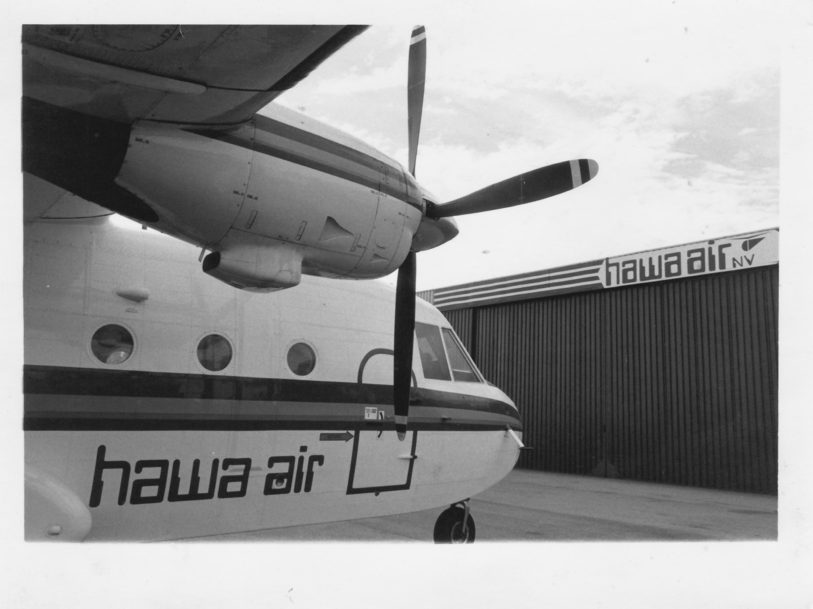 The Hawa Air C-212-200 Aviocar before the purposely built hangar of the same company.